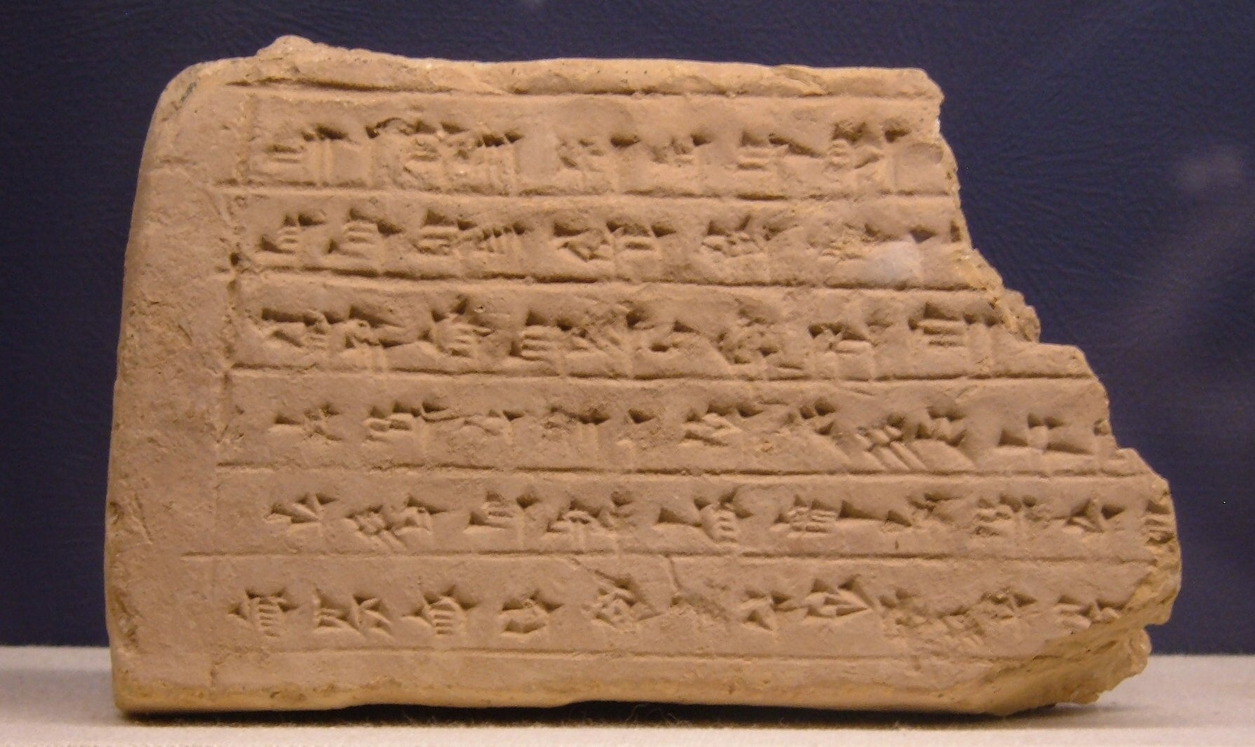 Clay brick fragment written in cuneiform in the Elamite language (ca. 1000 BCE) from Marlik on display at the Rosicrucian Egyptian Museum in San Jose, California. (written within line registers)